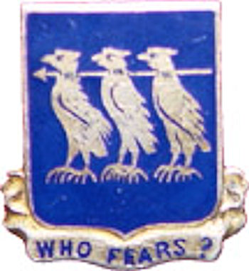 Emblem of the 301st Bombardment Group (World War II). The 301st BG flew its first missions as part of the 8th AF in England. They participated in the first all American daylight bombing raids on the European Continent. They were transferred to the newly created 12th AF and sent to North Africa in November of 1942. The 301st Bombardment Group Heavy was comprised of 4 bomb squadrons. The 32nd, 352nd, 353rd and 419th. After the conclusion of the war in North Africa, the 301st became part of the newly organized 15th AF. Insigne. Shield: Azure, three ravens pendent from a spear fessways or. Motto: Who Fears? (Approved 11 Aug 1942.)